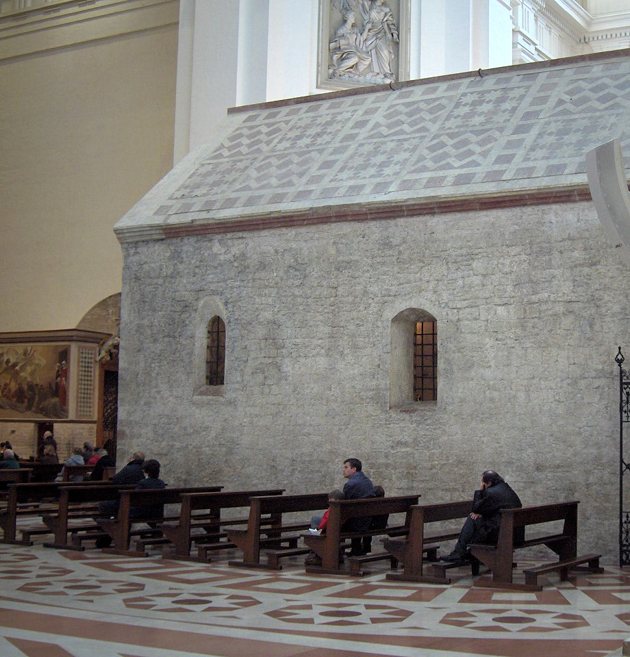 Side view of the Porziuncola (in the back : the Transito); Basilica of Santa Maria degli Angeli, Assisi, Italy